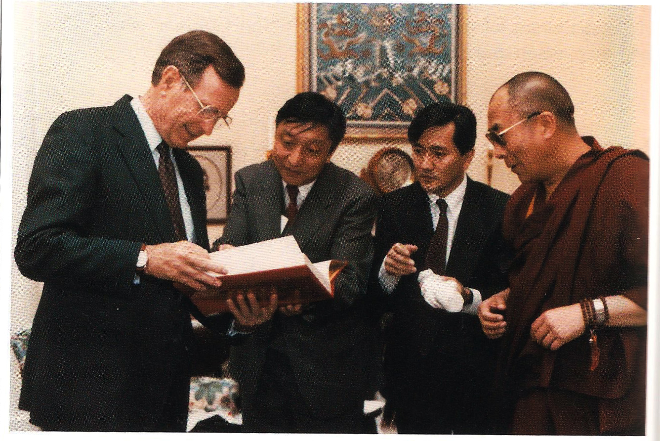 President George H.W. Bush with Lodi Gyari, Tenzing N. Tethong and His Holiness the Dalai Lama in 1991